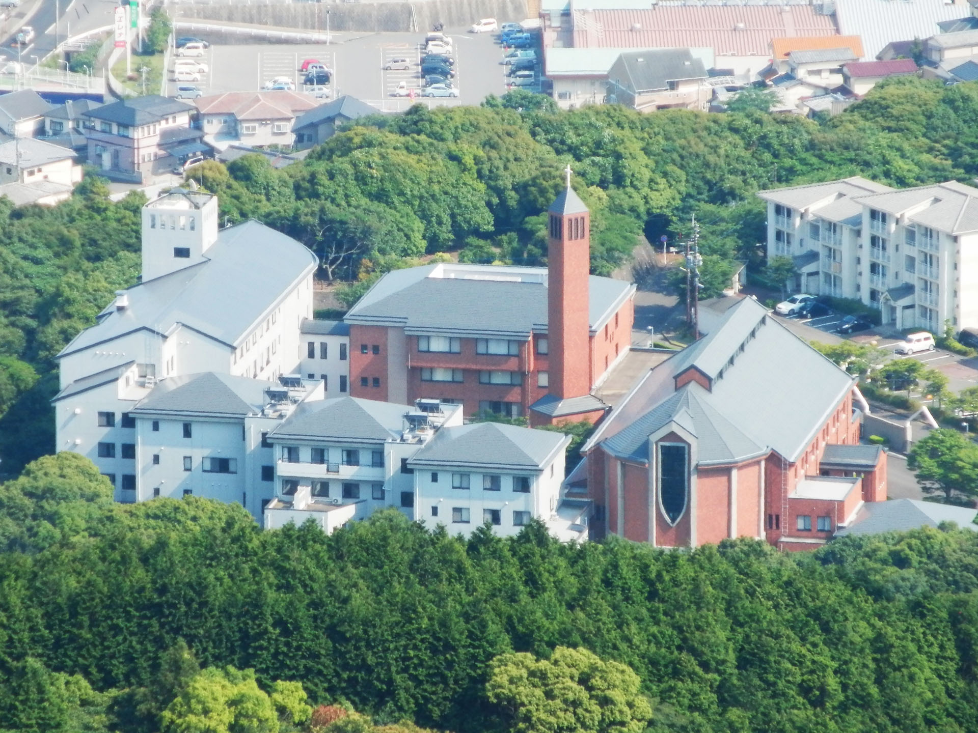 Otugeno Maria religious order overhead view photo